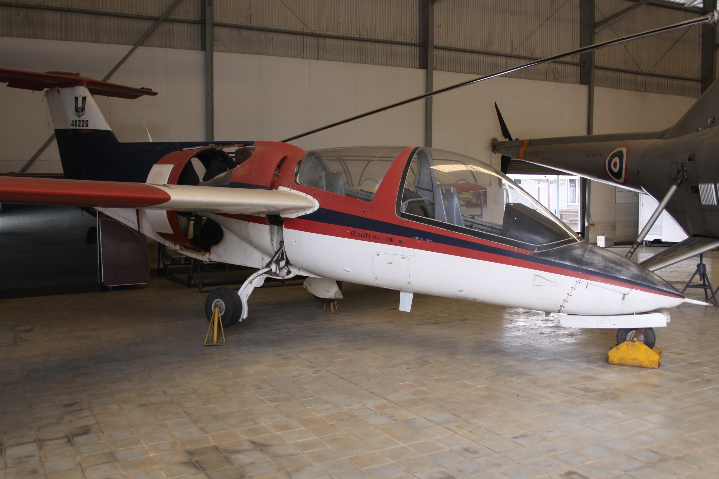 At Don Mueang International Airport